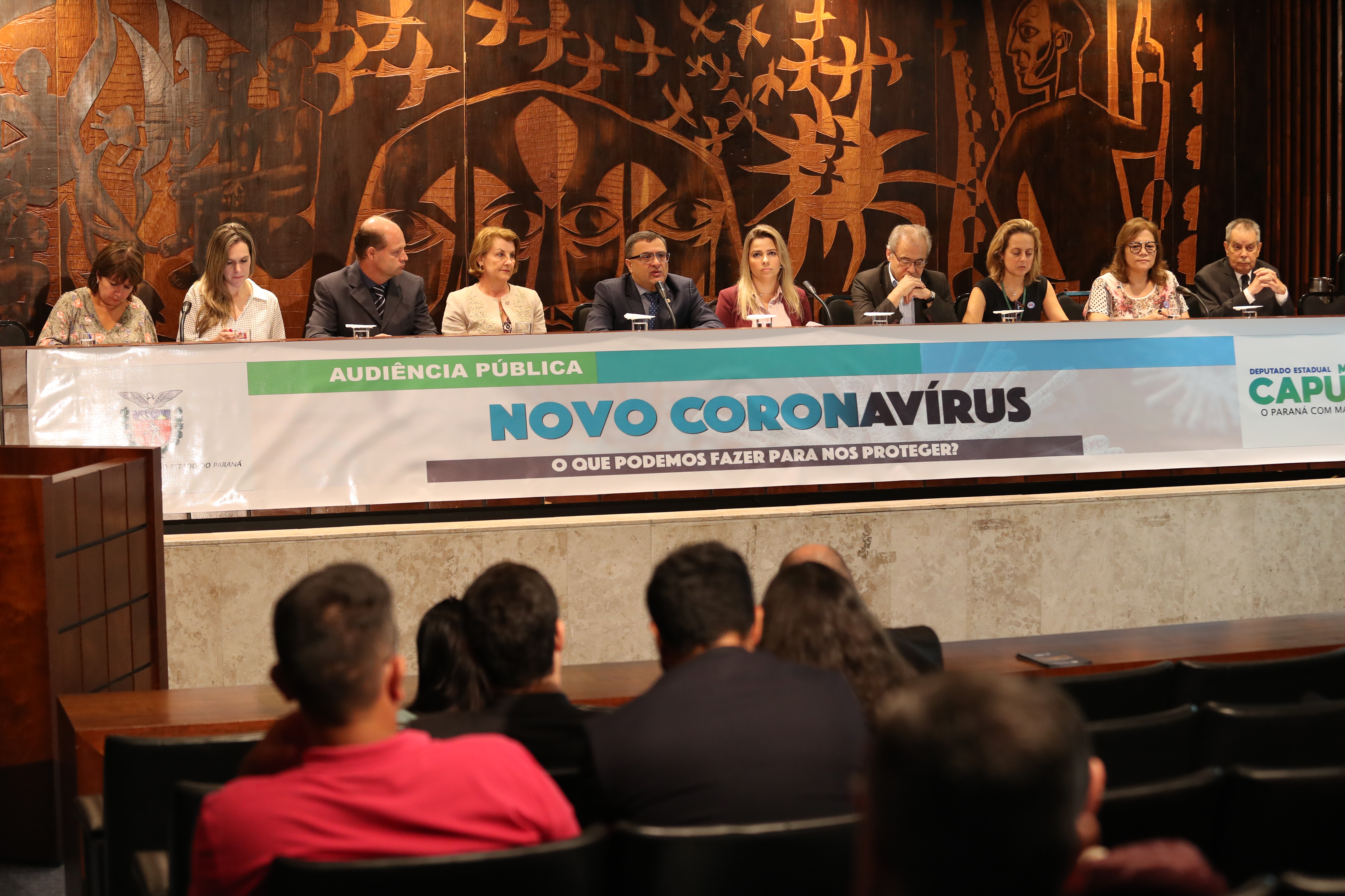 Audiência Pública - Novo Corona Vírus (COVID-19), em janeiro de 2020 no Paraná. Foto: Dálie Felberg